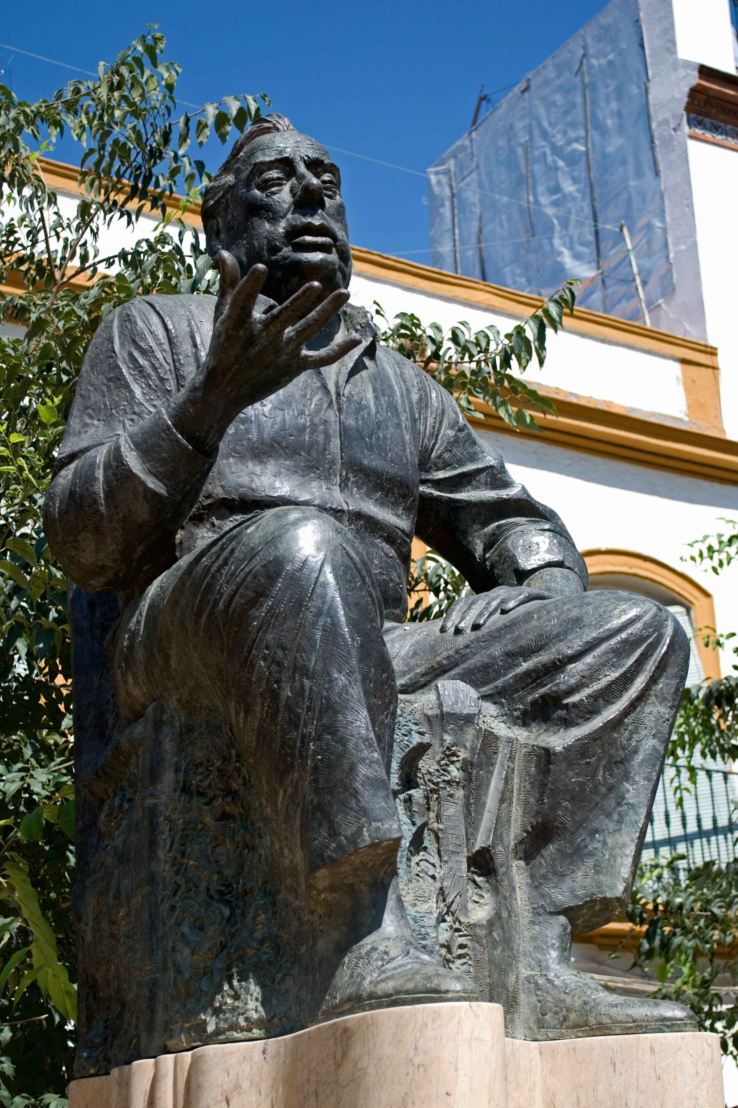 Estatua del Manolo Caracol en la Alameda de Hércules. Sevilla, Andalucía, España.